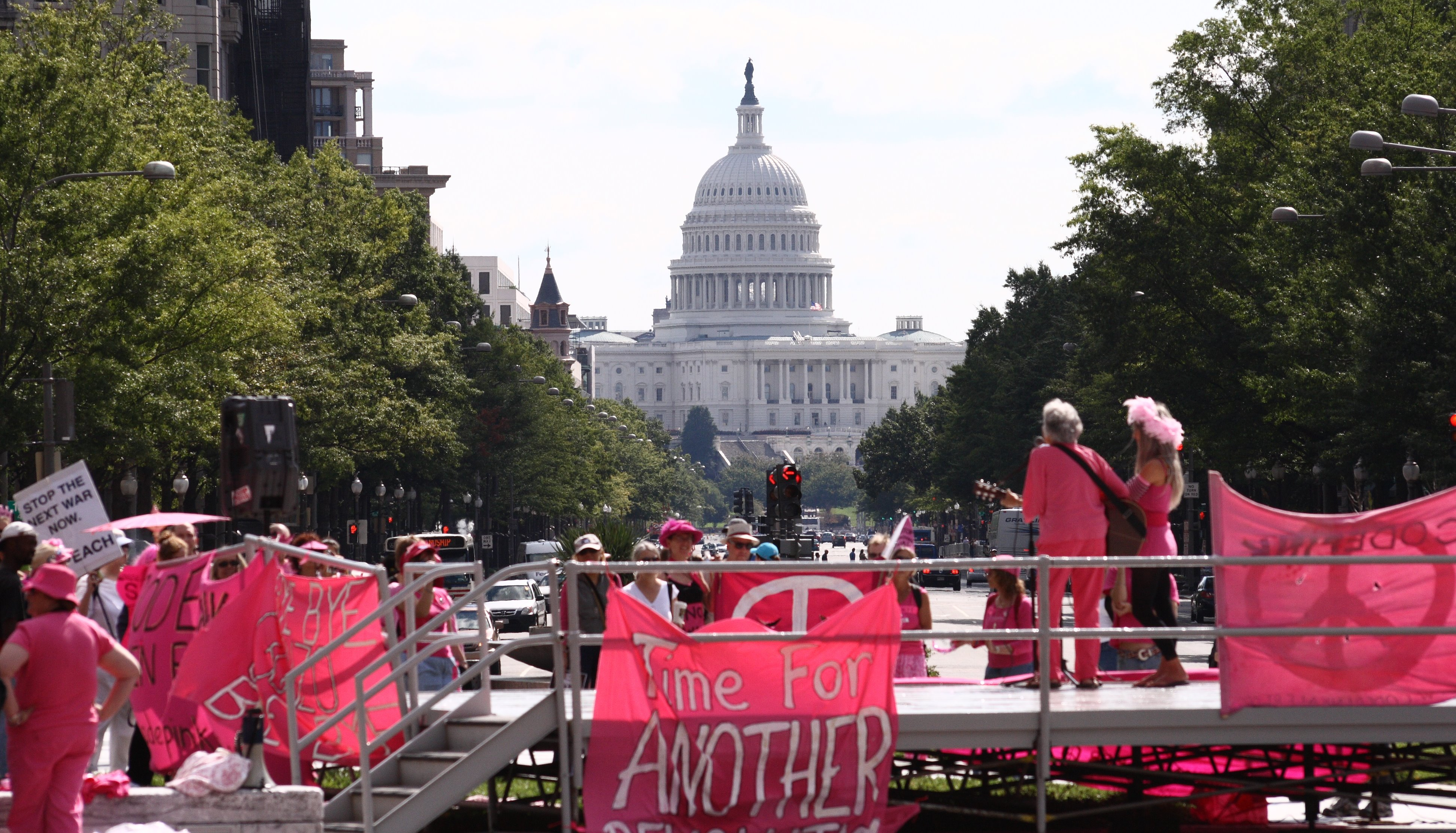 A crowd of Code Pink protesters, gathered to sing before the main September 15, 2007 anti-war protest in Washington, D.C.